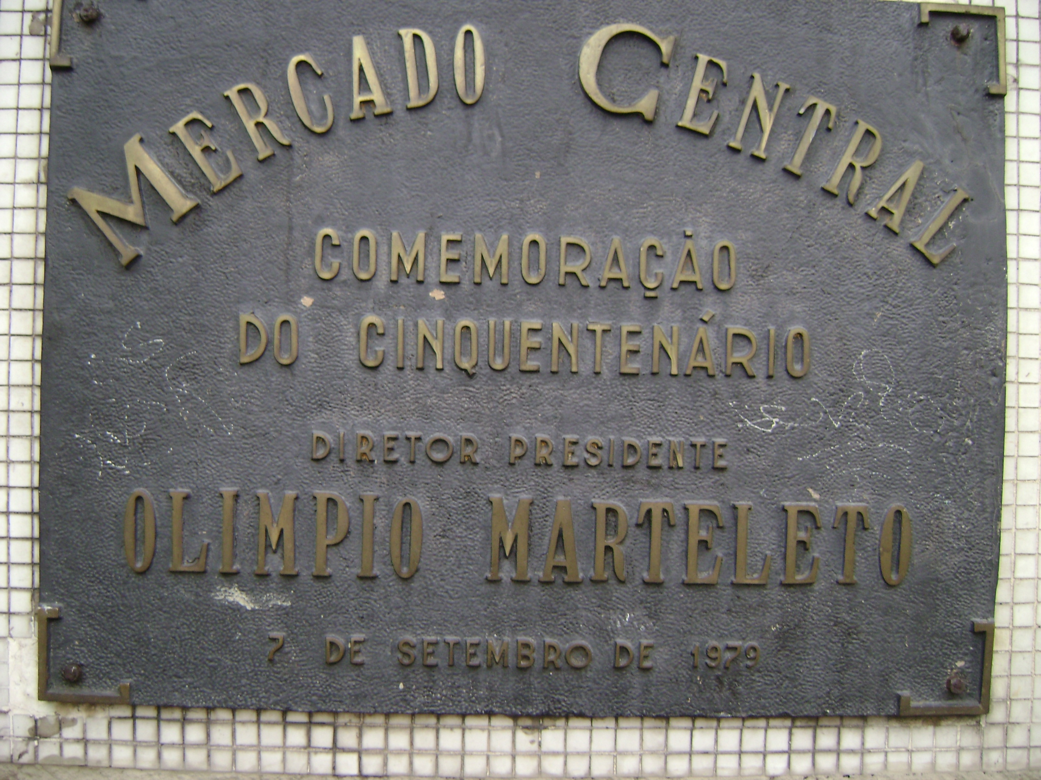 Inscrição na parede do Mercado Central, em Belo Horizonte.